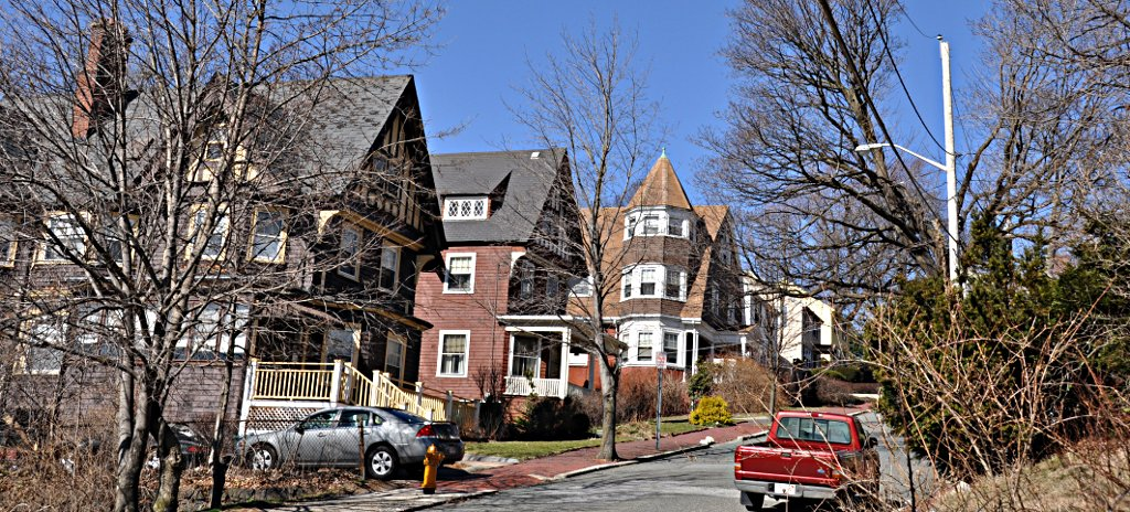 A photograph of Hillside Avenue in the Hillside Avenue Historic District of Medford, Massachusetts.